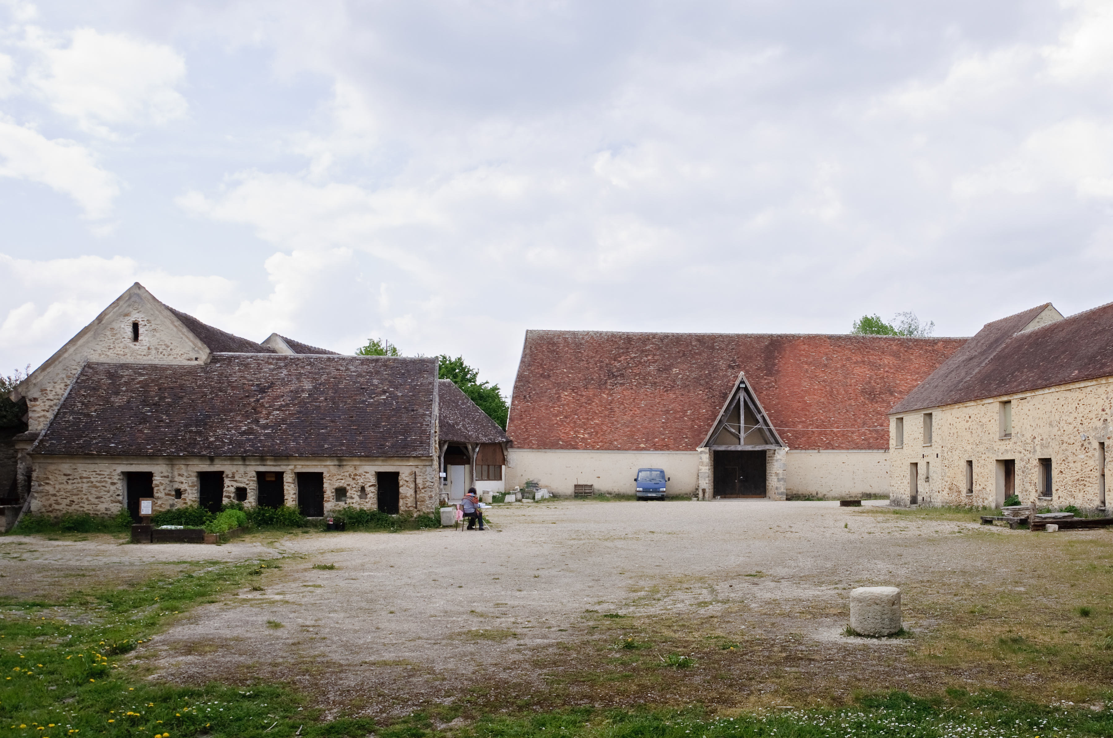 Former Knights Templar commandery in Coulommiers (Seine-et-Marne, France): the courtyard, the tithe barn (16th-century) and the utilitarian buildings.